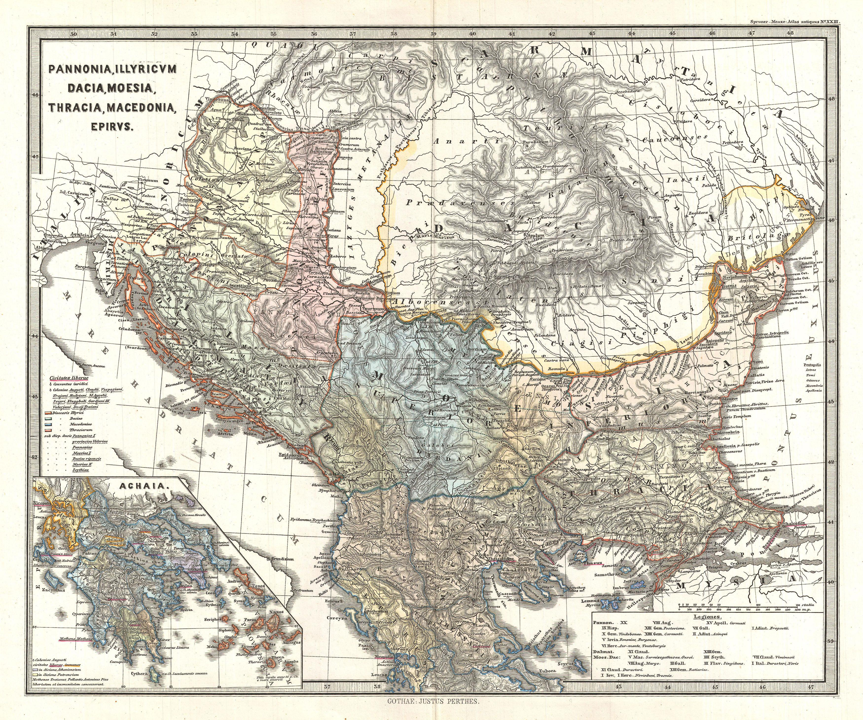 This is Karl von Spruner’s 1865 map of Pannonia, Illyria, Dacia, Moesia, Thrace, Macedonia, and Epirus, collectively known as “The Balkans”. This highly detailed map shows present day Romania, Bulgaria, Macedonia, Albania, Serbia, Bosnia, Croatia, Slovenia, and Northern Greece. Spruner also includes an inset in the lower-left quadrant showing Achaea (Achaia), an ancient province and a present prefecture of Greece. Shows names of ancient tribes and peoples and the areas they inhabited. Map includes two legends, one detailing “free states” (Civitates liberae) and one shows the disposition of the Roman Legions. Map notes important cities, rivers, mountain ranges and other minor topographical detail. Territories and countries outlined in color. The whole is rendered in finely engraved detail exhibiting throughout the fine craftsmanship of the Perthes firm.